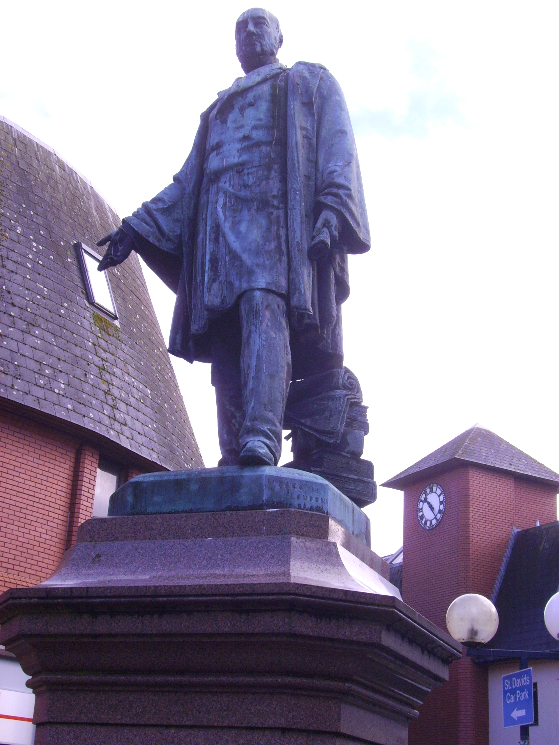 Statue of Henry Hussey Vivian, 1st Baron Swansea (1821-1894), located in Swansea, made of Bronze and Red Granate. Sculpted by Mario Reggi completed in 1886.